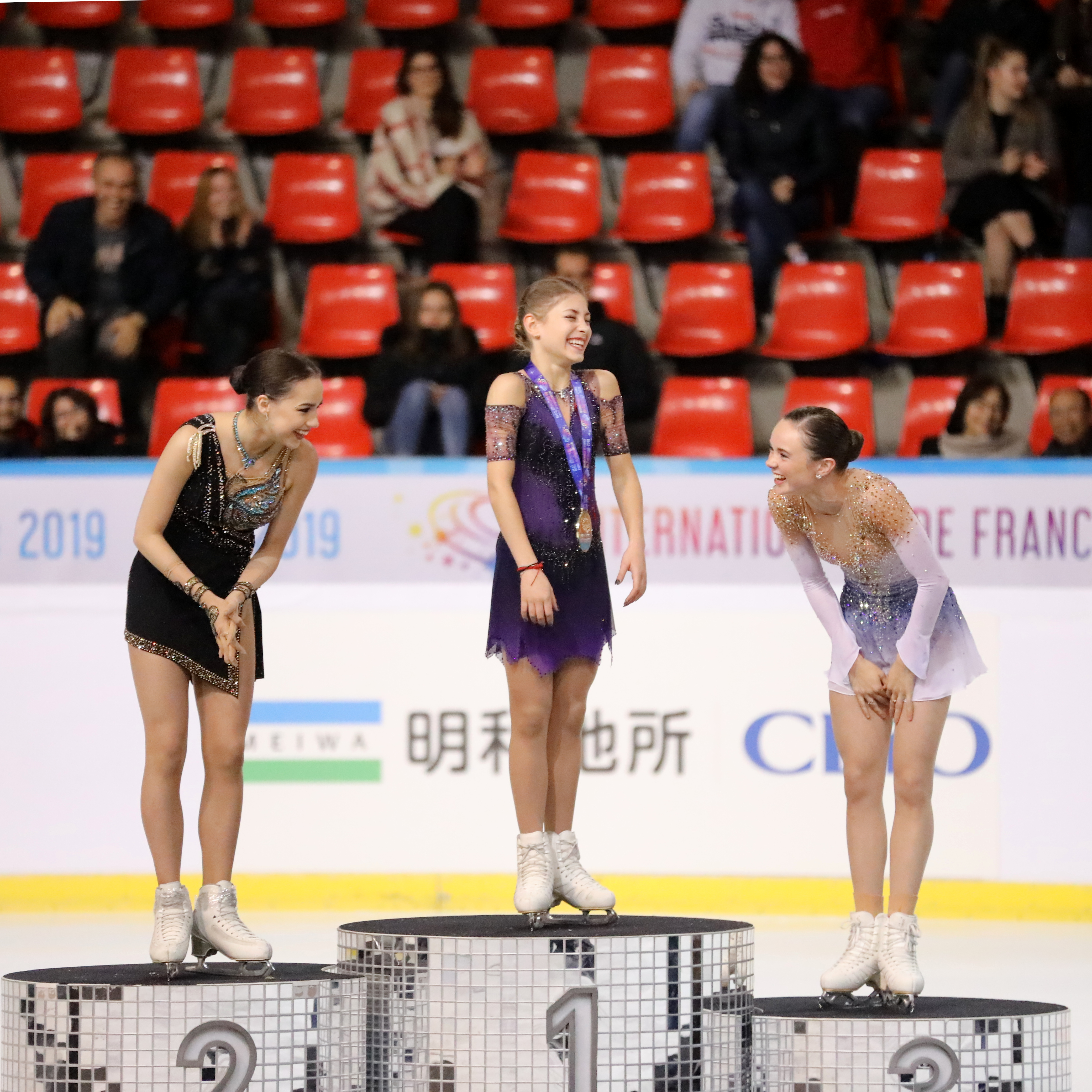 219 Internationaux de France - ladies medal ceremony. The gold medal was offered to Mariah Bell (bronze) by mistake so she handed it over to Alena Kostornaia and all three, including Alina Zagitova, started laughing.